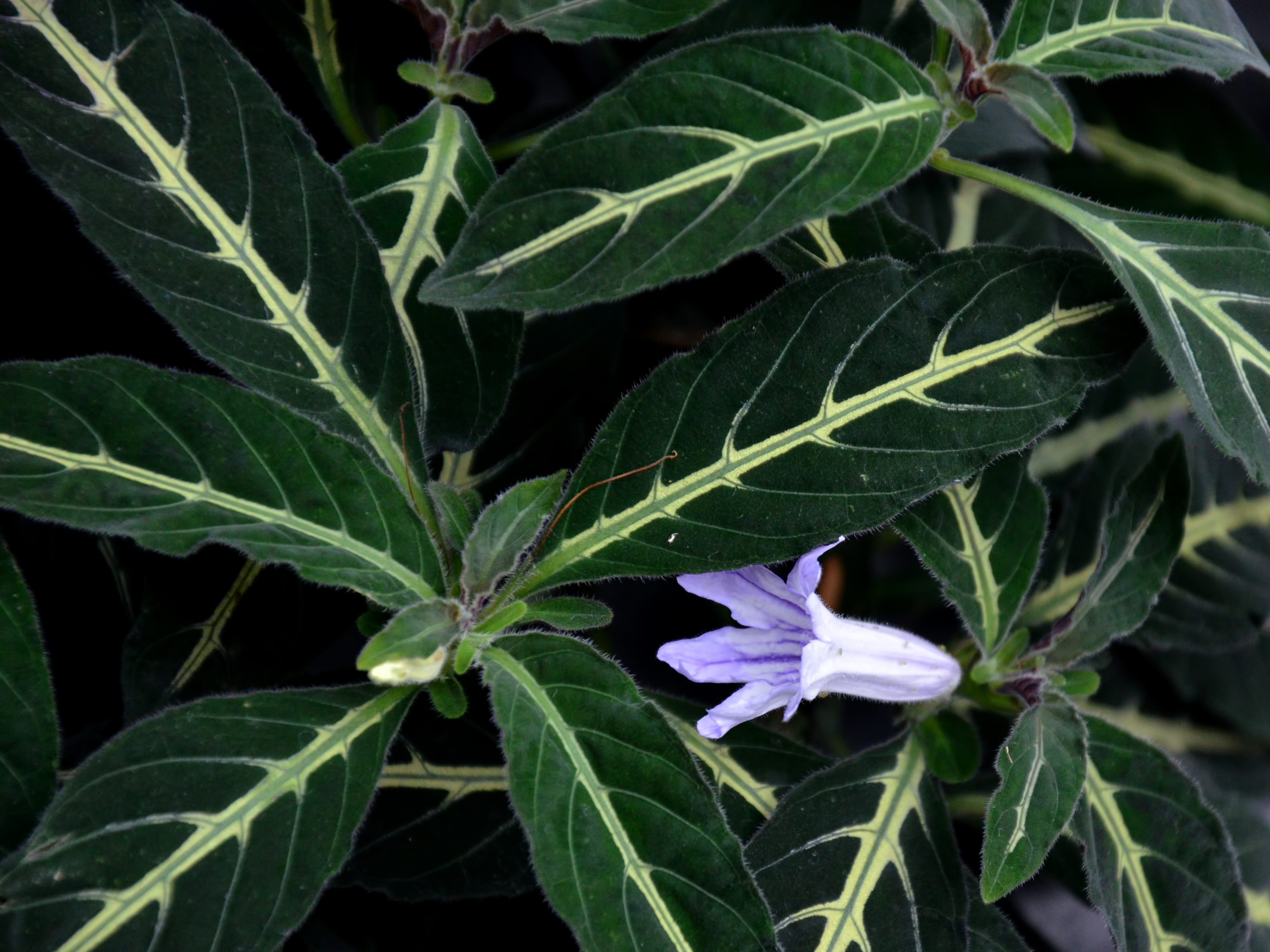 Wild petunia at Kew Gardens, London, UK.